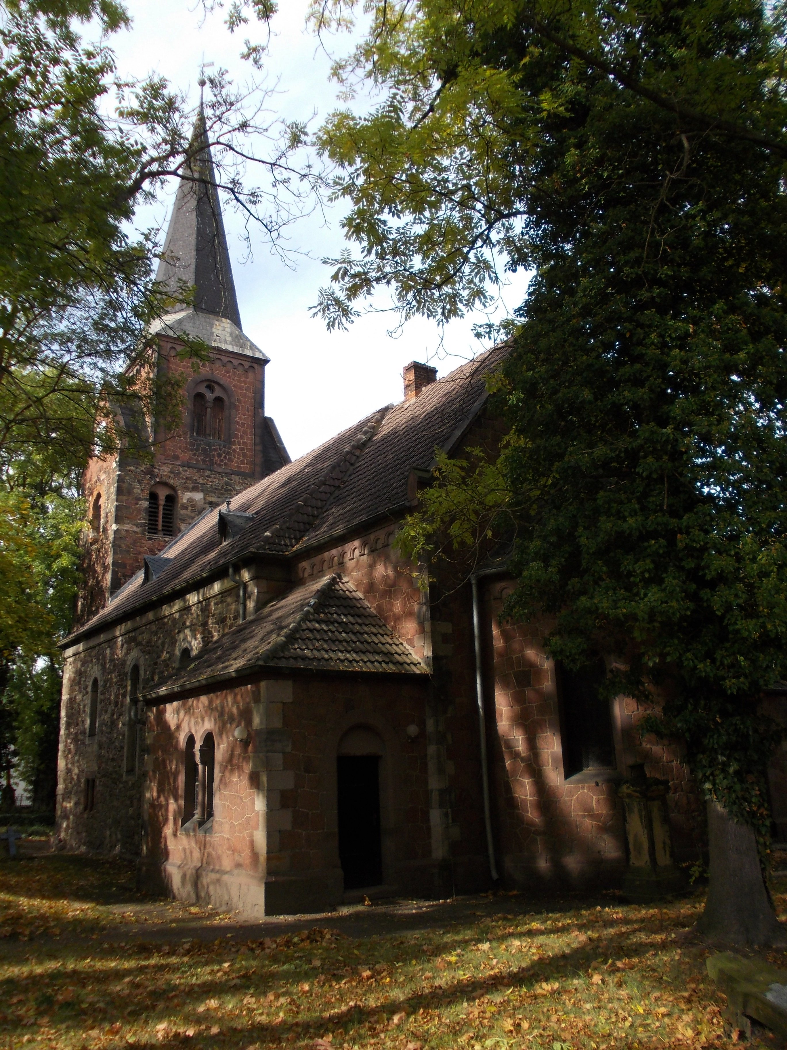 St. Pancratius' Church in Mötzlich (Halle/Saale, Saxony-Anhalt)